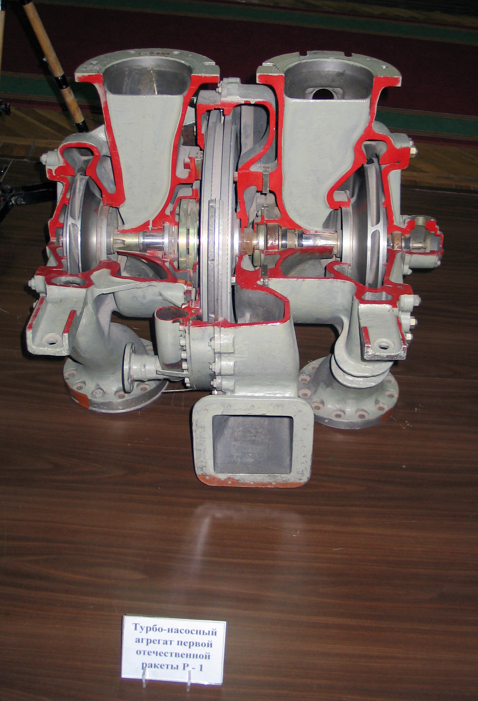 The cutaways of turbopump from R-1 (8А11) - Soviet ballistic missile (copy of V2) on the stand of Kapustin Yar museum in Znamensk, Russia.